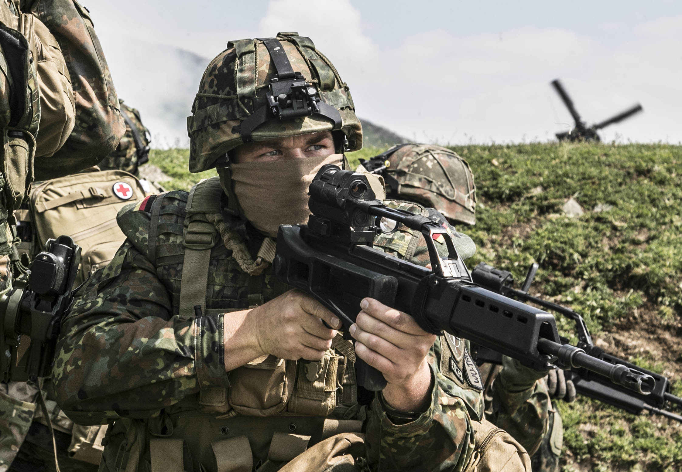 A German soldier serving with the Multinational Battle Group-East and Kosovo Force, pulls security for his squad during Operation Sharp Griffin May 6, on Orahovac Range in Kosovo. U.S. and NATO forces have contributed to the United Nations-mandated peacekeeping mission in Kosovo since June 1999.